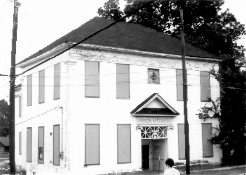 Masonic Temple Building in Meridian, Mississippi